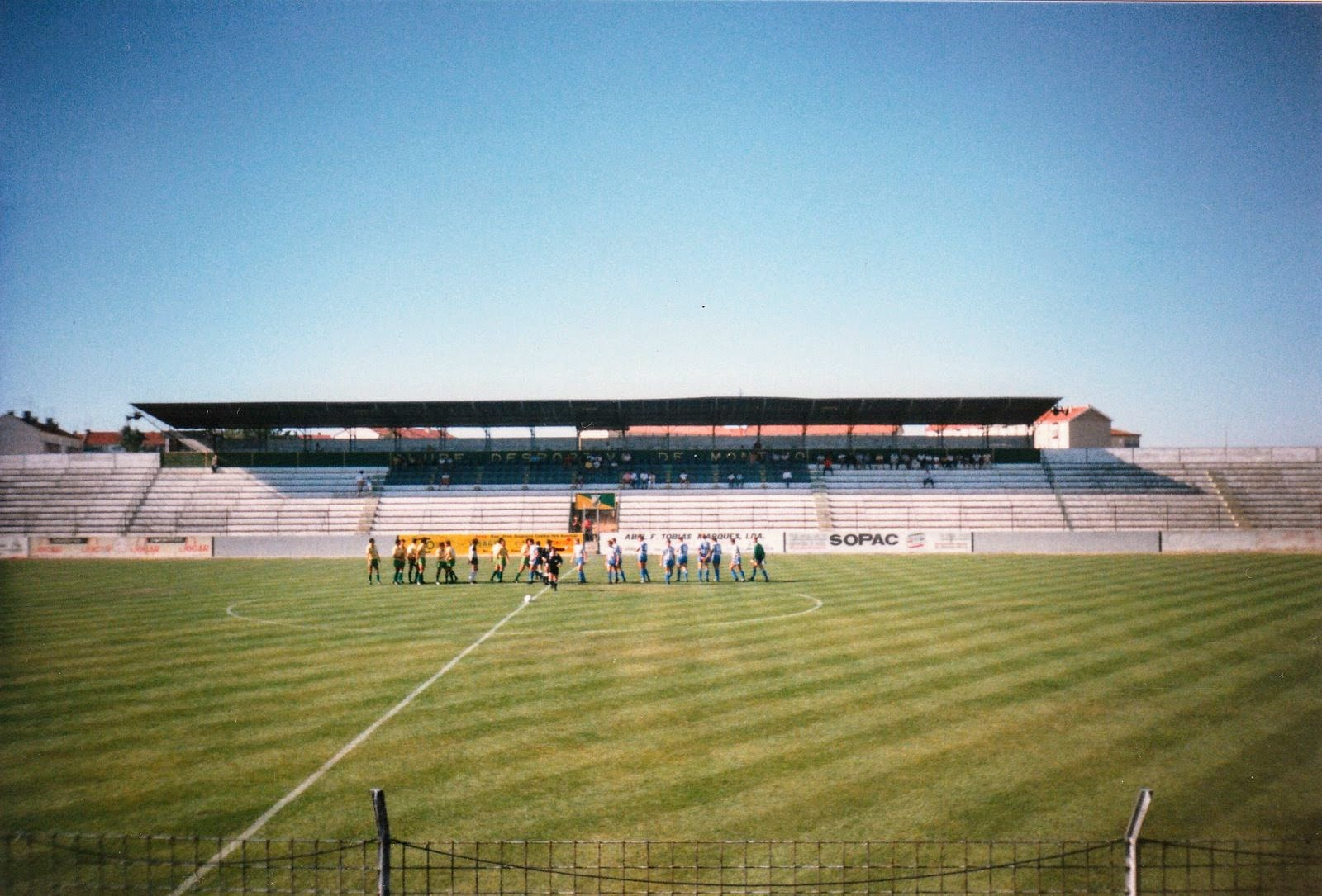 CD Montijo X Brighton & Hove Albion for the Alliance Cup in Campo Luís Almeida Fidalgo